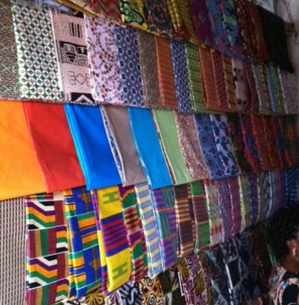 A display of various african prints. From west to east and north to South Africa respectively This is an image of Cultural Fashion or Adornment from Nigeria